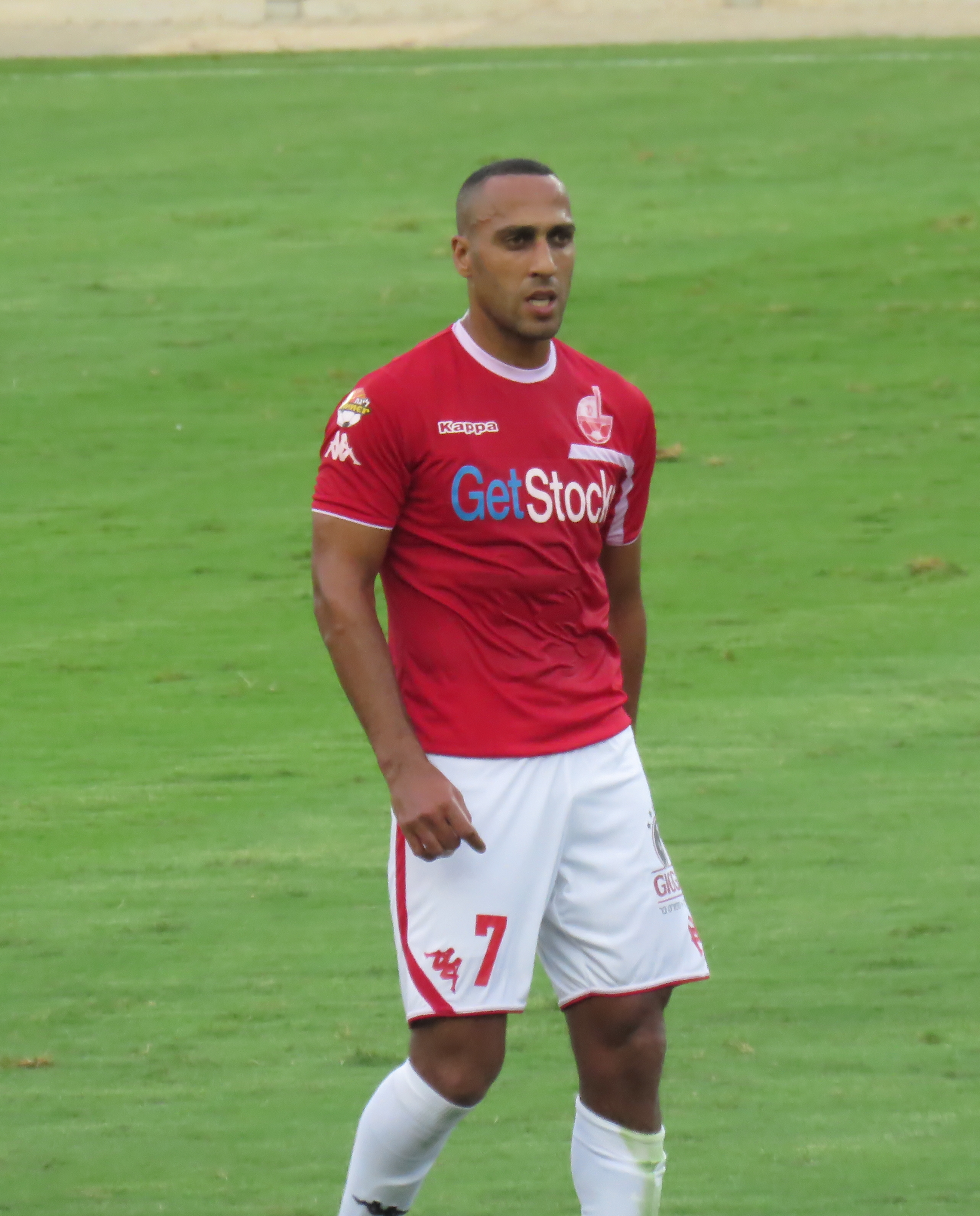 Hapoel Ra'anana vs. Hapoel Be'er Sheva - September 12, 2015